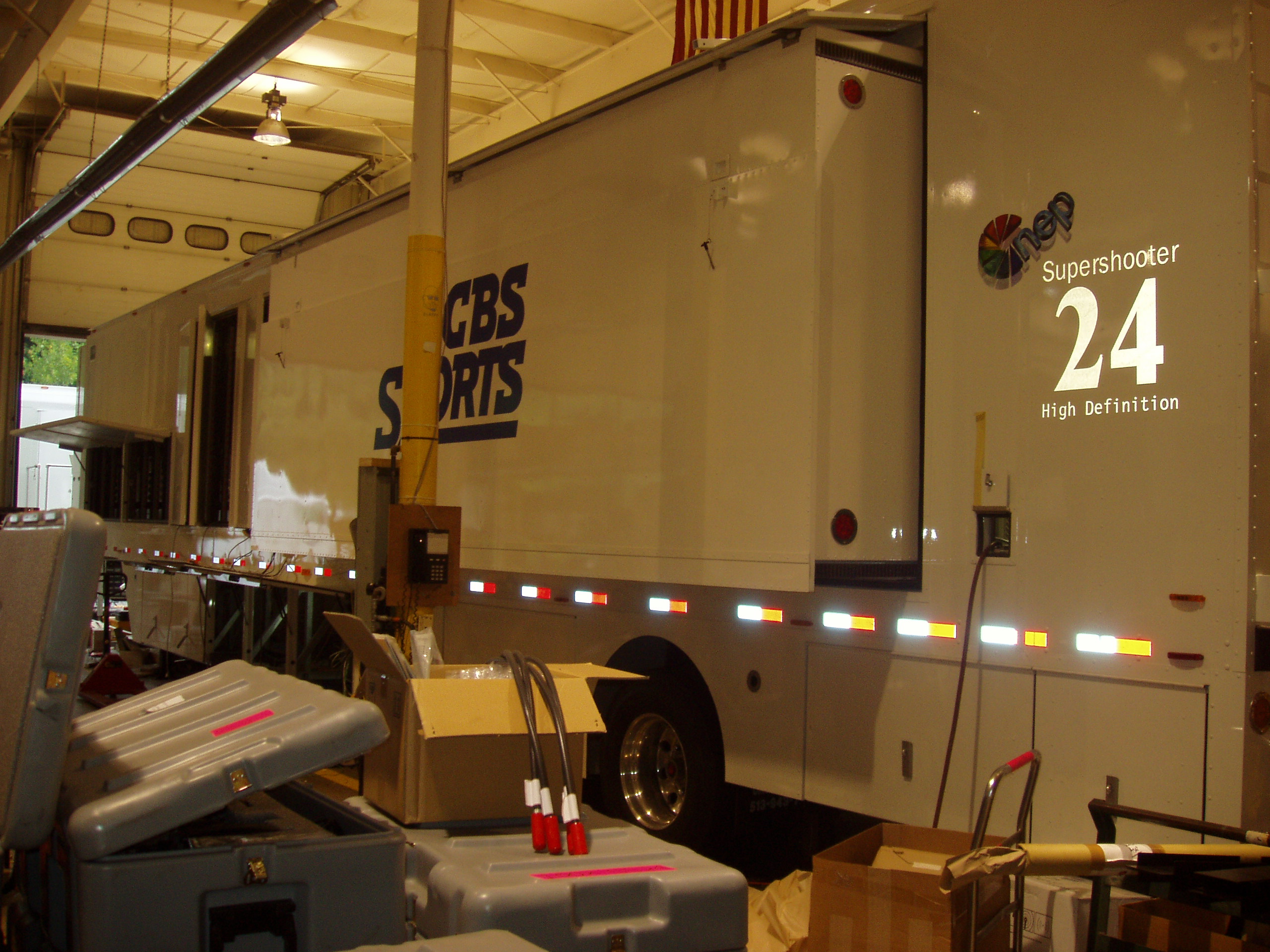 Twin High Deffinition units opporated by NEP Supershooters in Pittsburgh PA